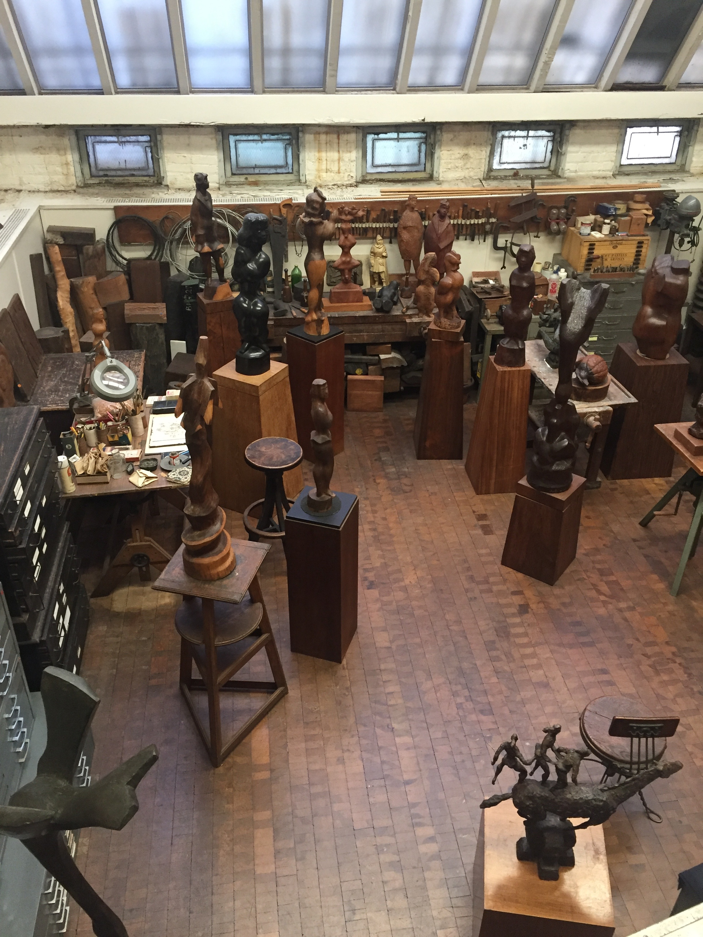 A wondrous room full of the sculptor Chaim Gross' works and materials. Site: Renee & Chaim Gross Foundation